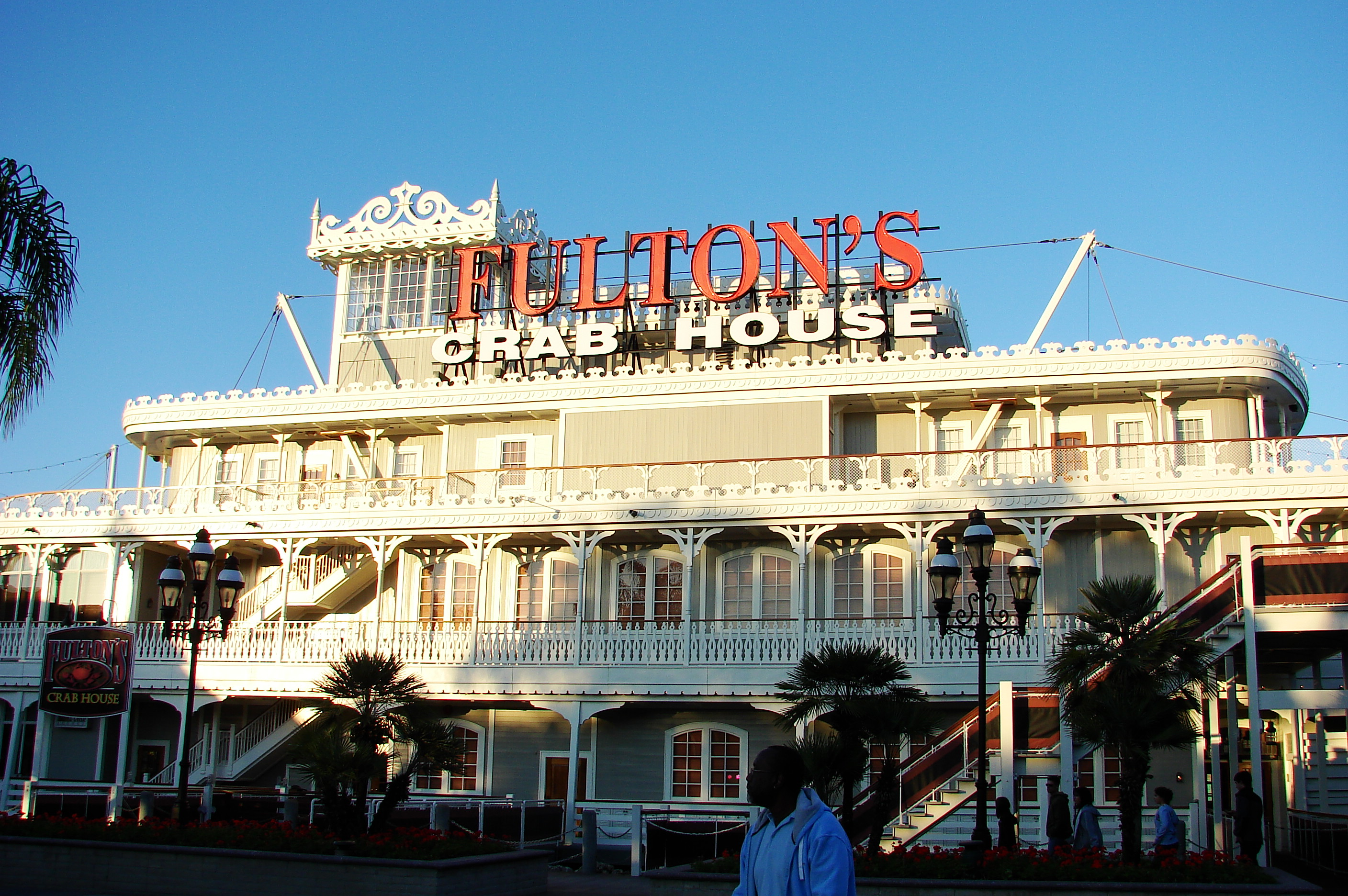 Fulton's Crab House in Downtown Disney in Orlando, Florida.